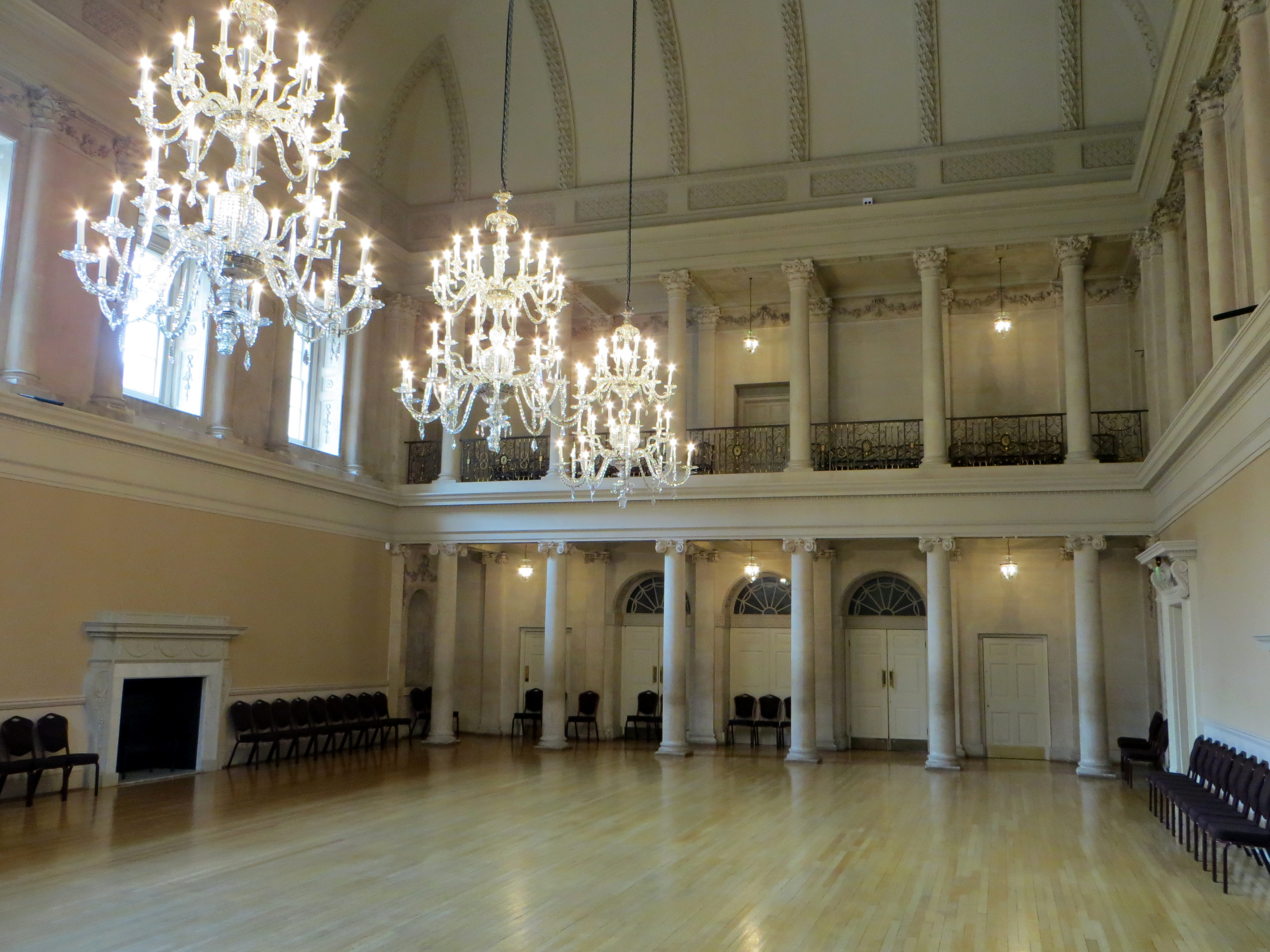 Inside the Assembly Rooms, Bath. The Tea Room.